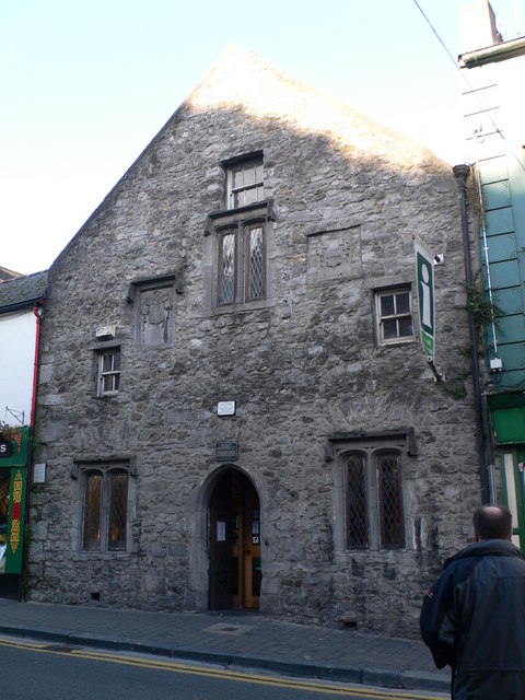 Shee Almshouse, Kilkenny Now housing the Tourist Information Centre, this almshouse was originally built in 1581 by Sir Richard Shee. It housed the poor until the early 19th century.